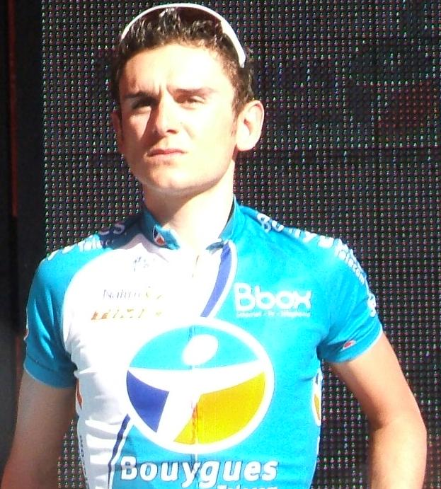 Named cyclist at the en:2009 Tour Down Under team presentation